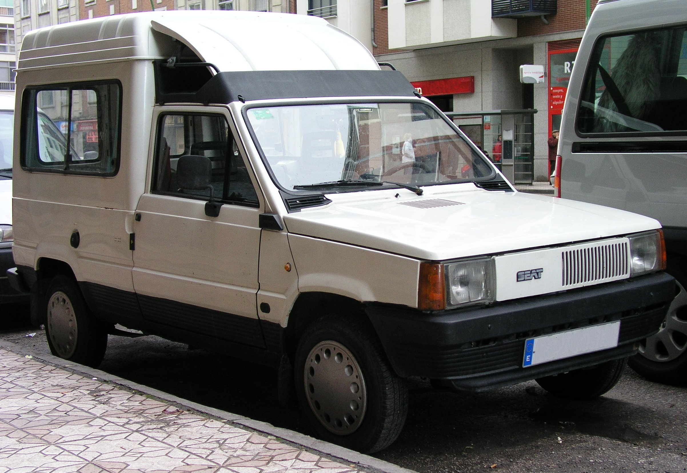 SEAT Trans Spain, 2006.